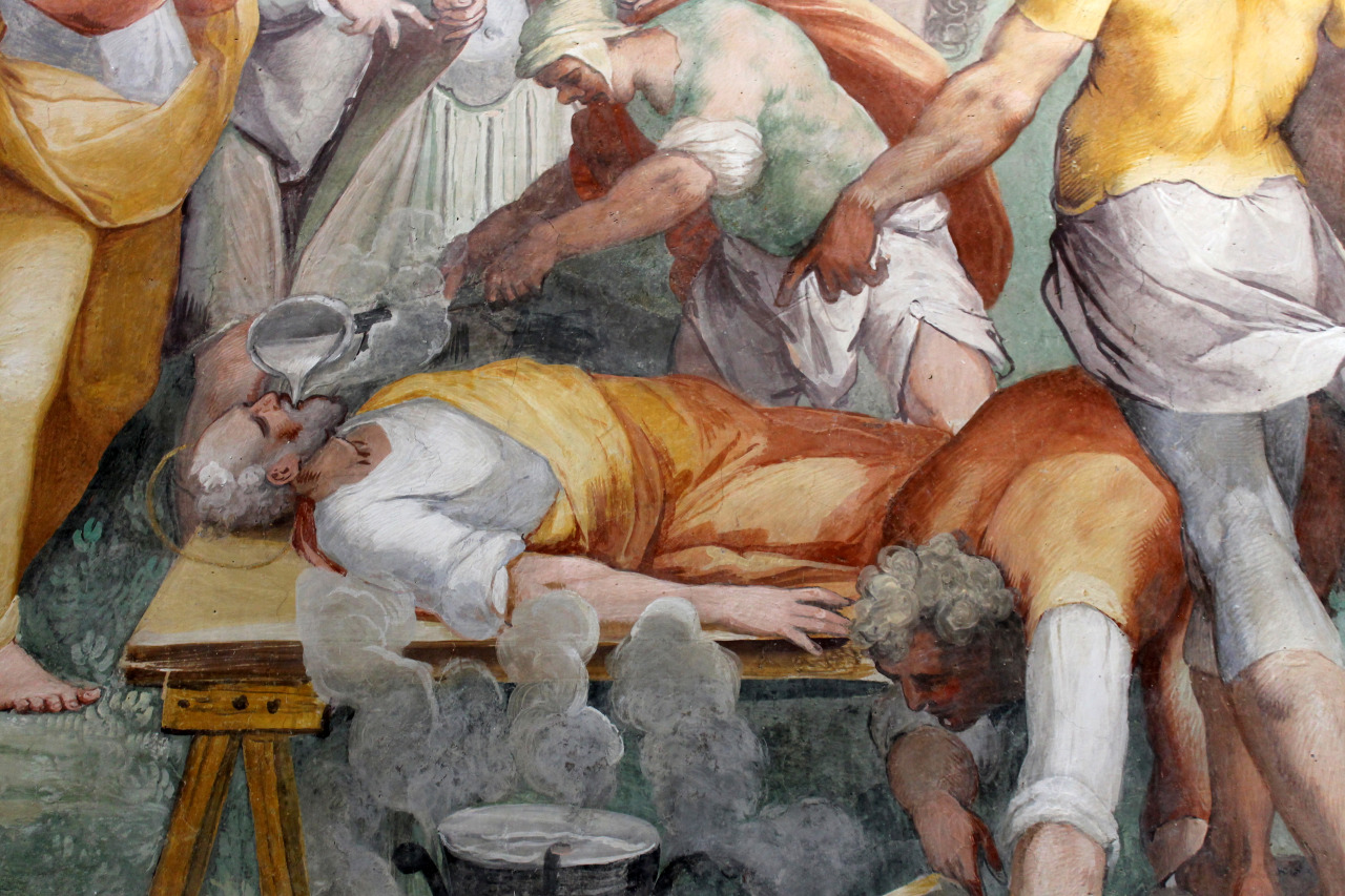 Fresco of the martyrdom of Saint Primus, who is being forced to swallow molten lead (Circignani and Tempesta). In the Church of Santo Stefano Rotondo, Rome.